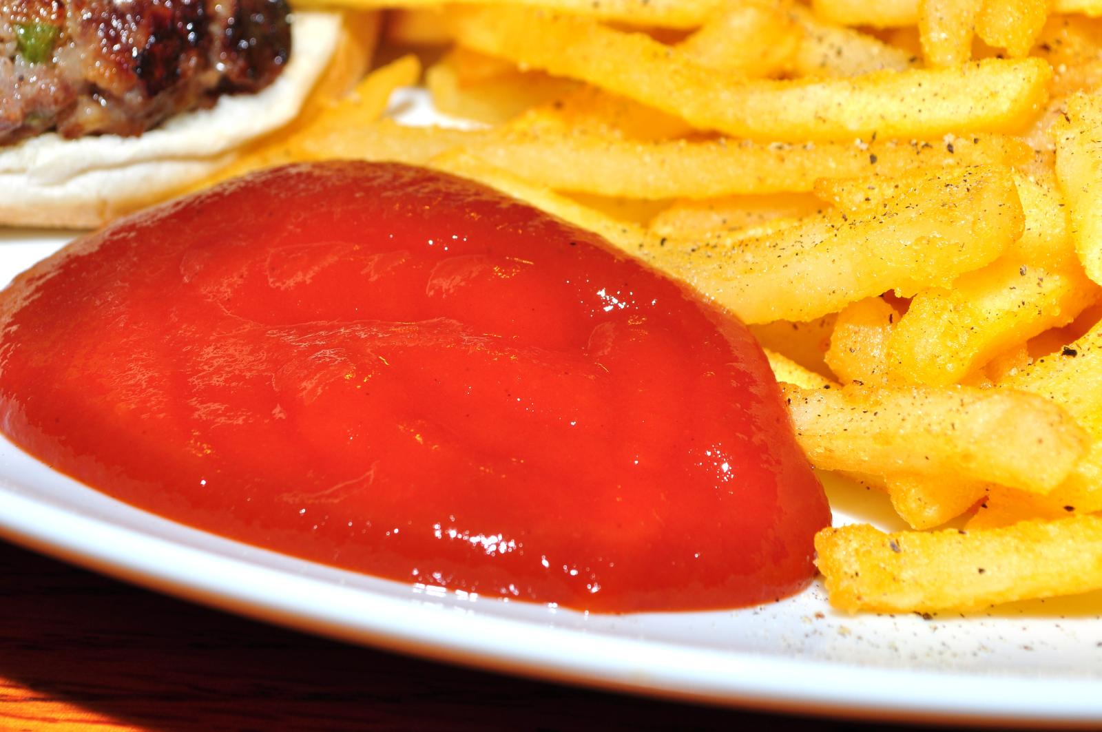 Homemade ketchup with french fries